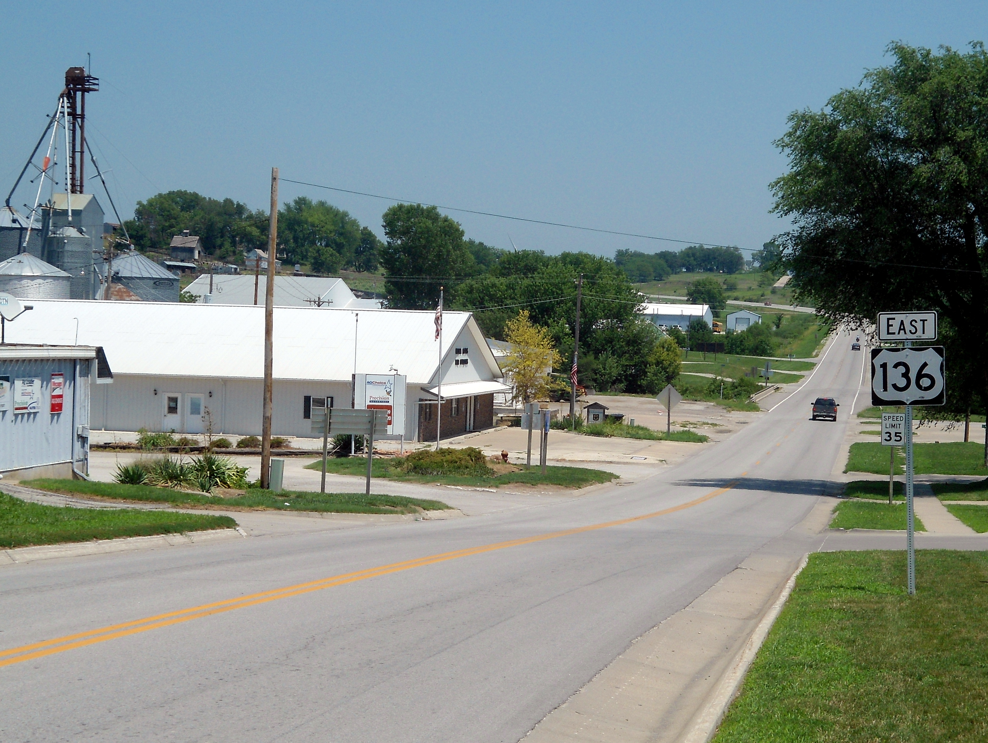 US 136 in Rock Port, Missouri first marker after the MO 111 terminus.